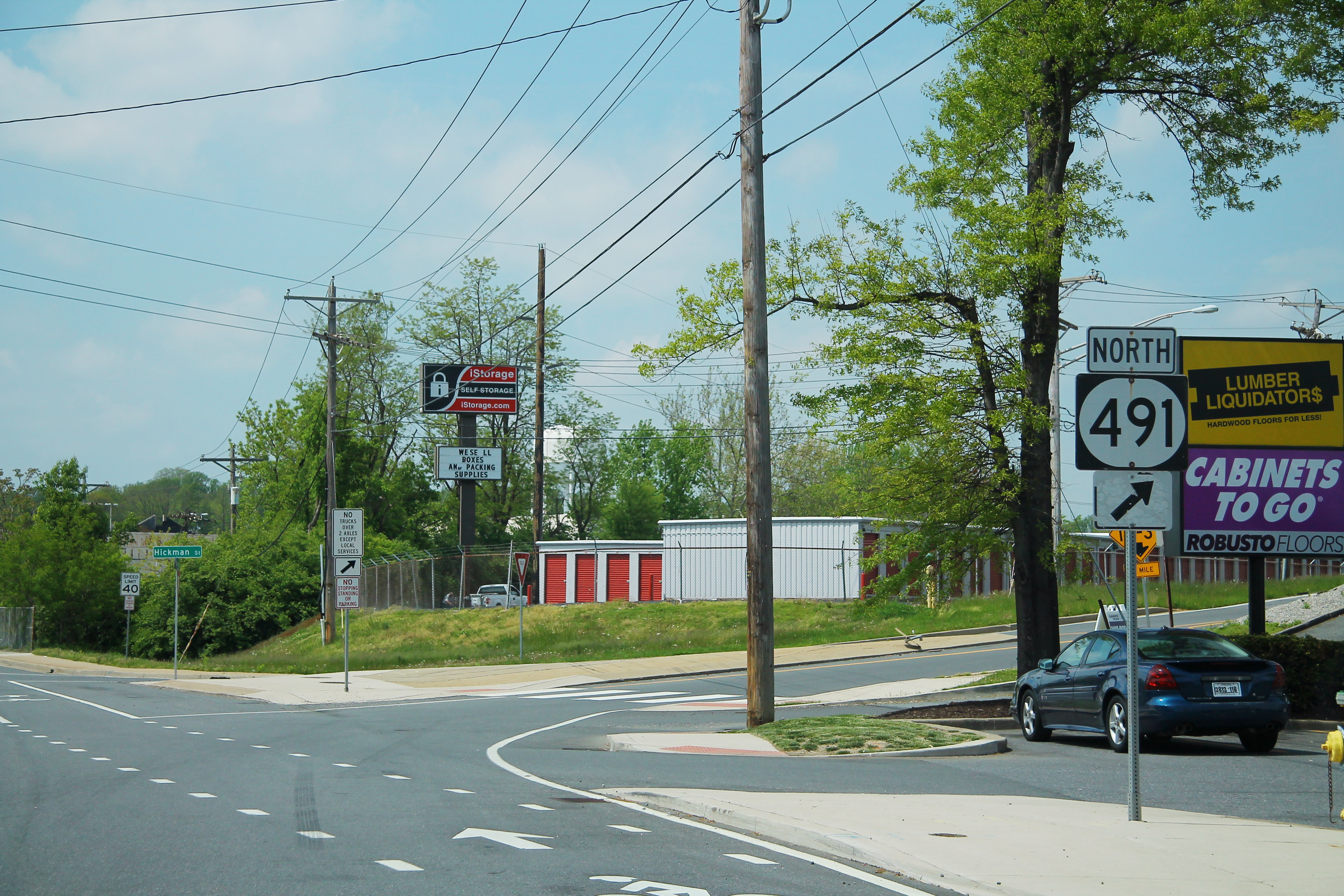 A sign for Delaware Route 491.